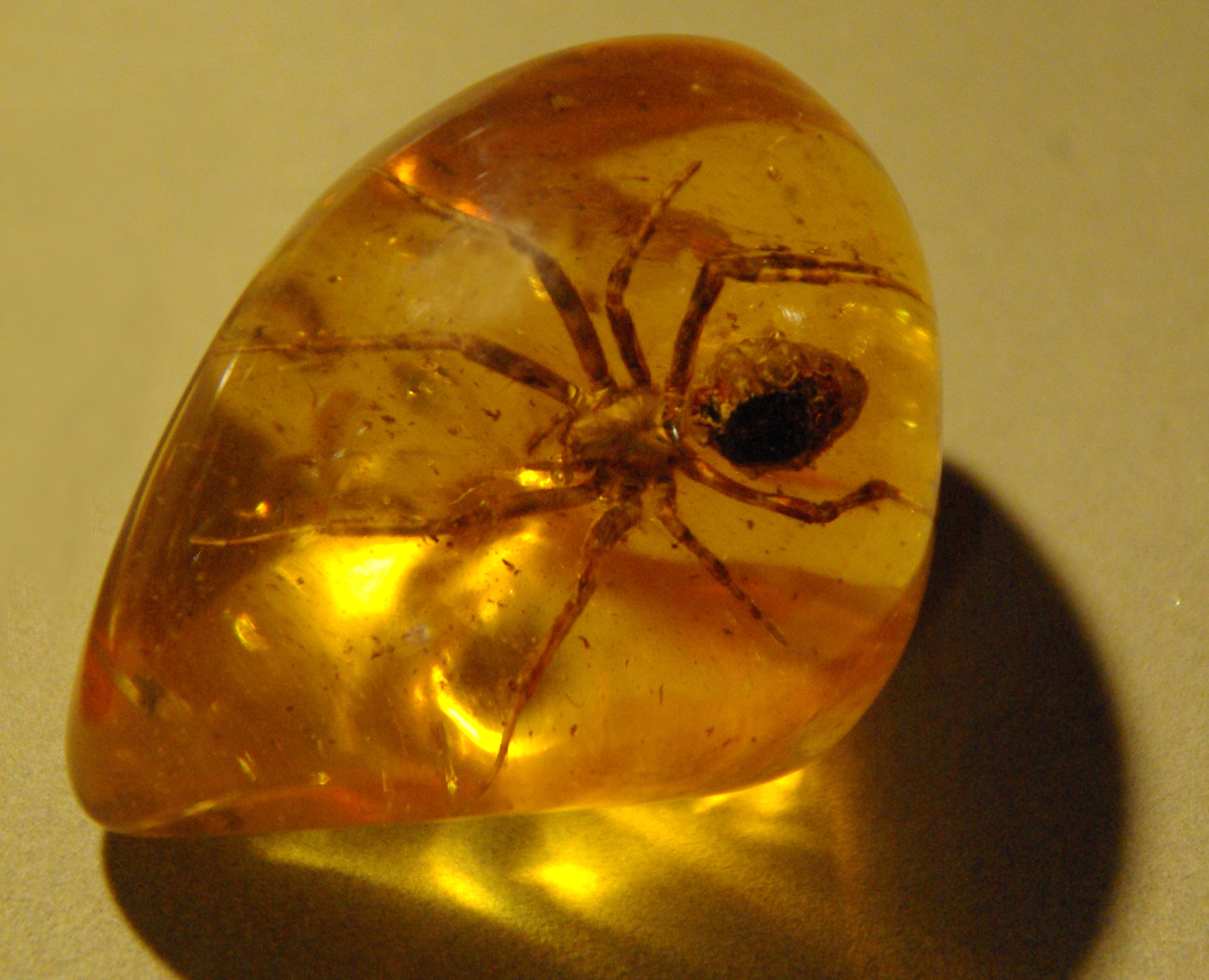 Spider in piece of amber. Exhibit in a museum.